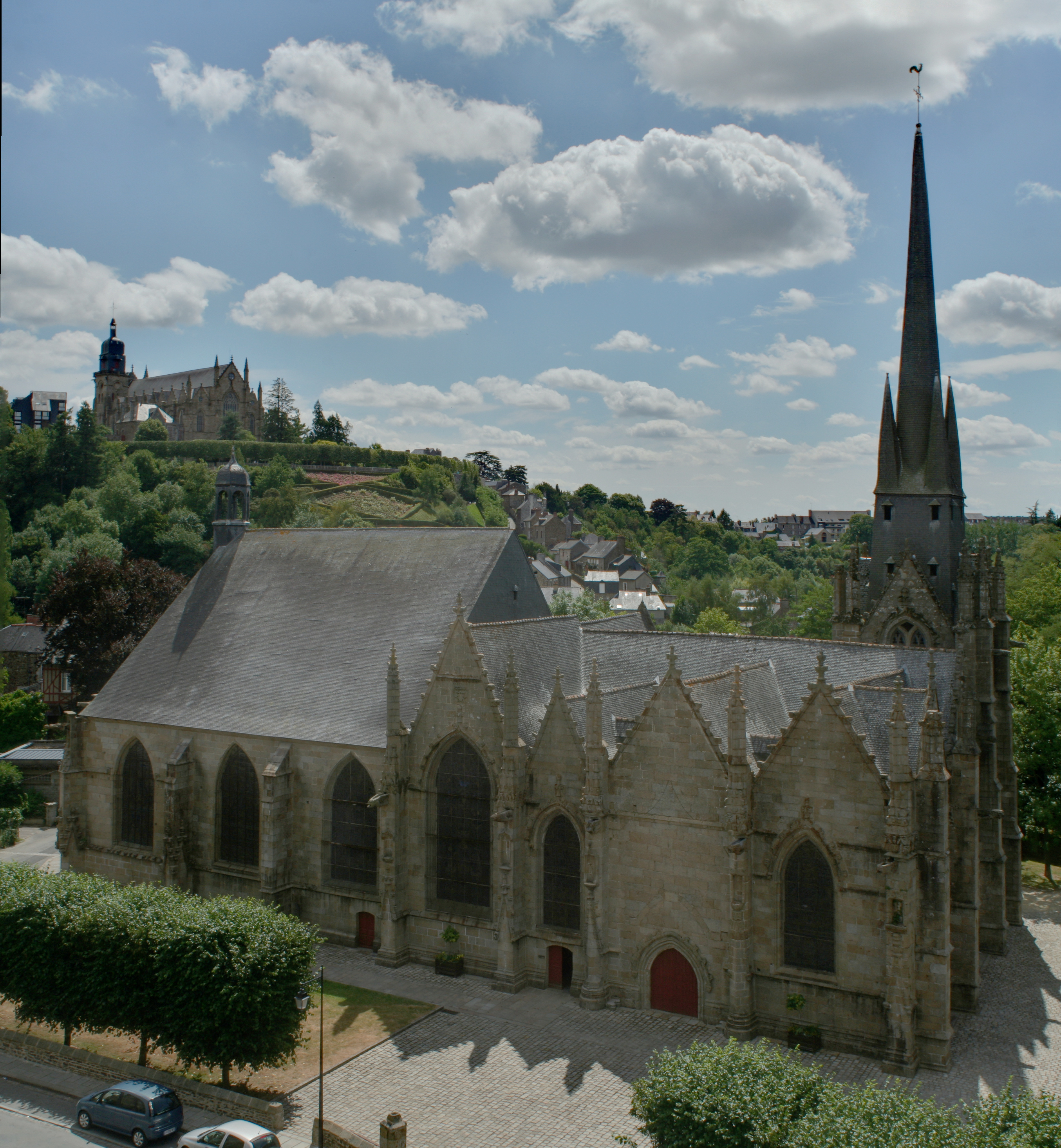 Saint-Sulpice church, Fougères, seen from the castle.Exposure Blending panorama.